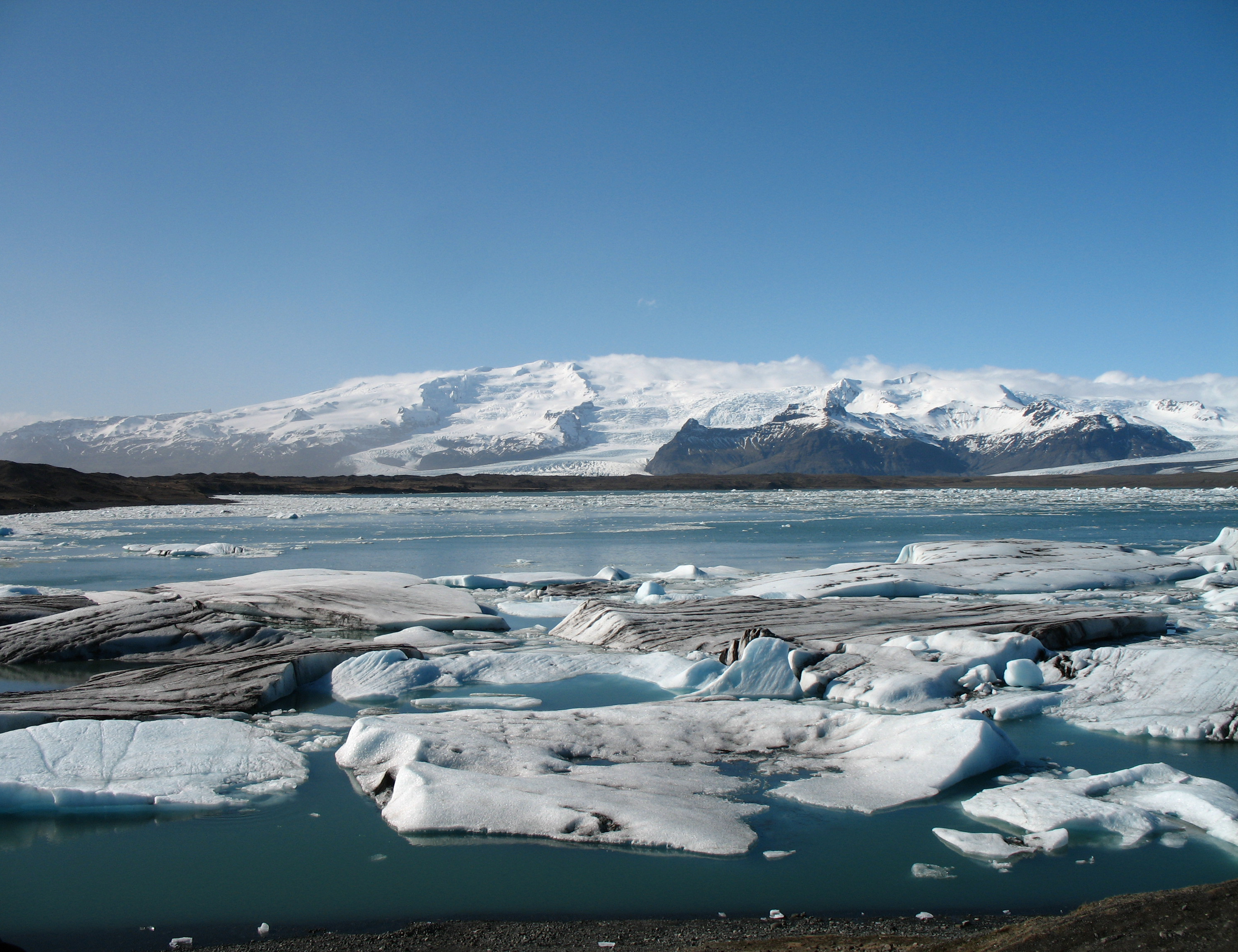 Jökulsárlón in April, 2007. Jökulsárlón is a glacial lake in Iceland, where icebergs which break away from the glacier flow out to sea.